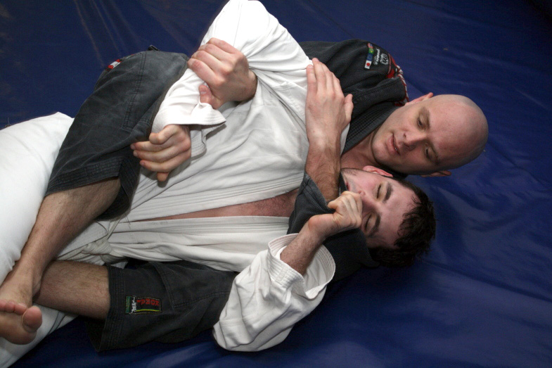 jiu-jitsu